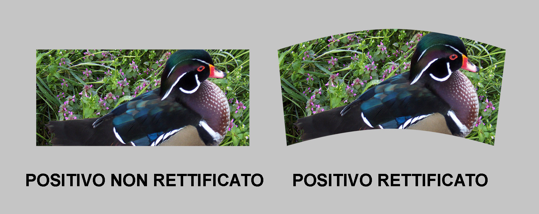 Todd-AO Process: rectified print vs normal print.